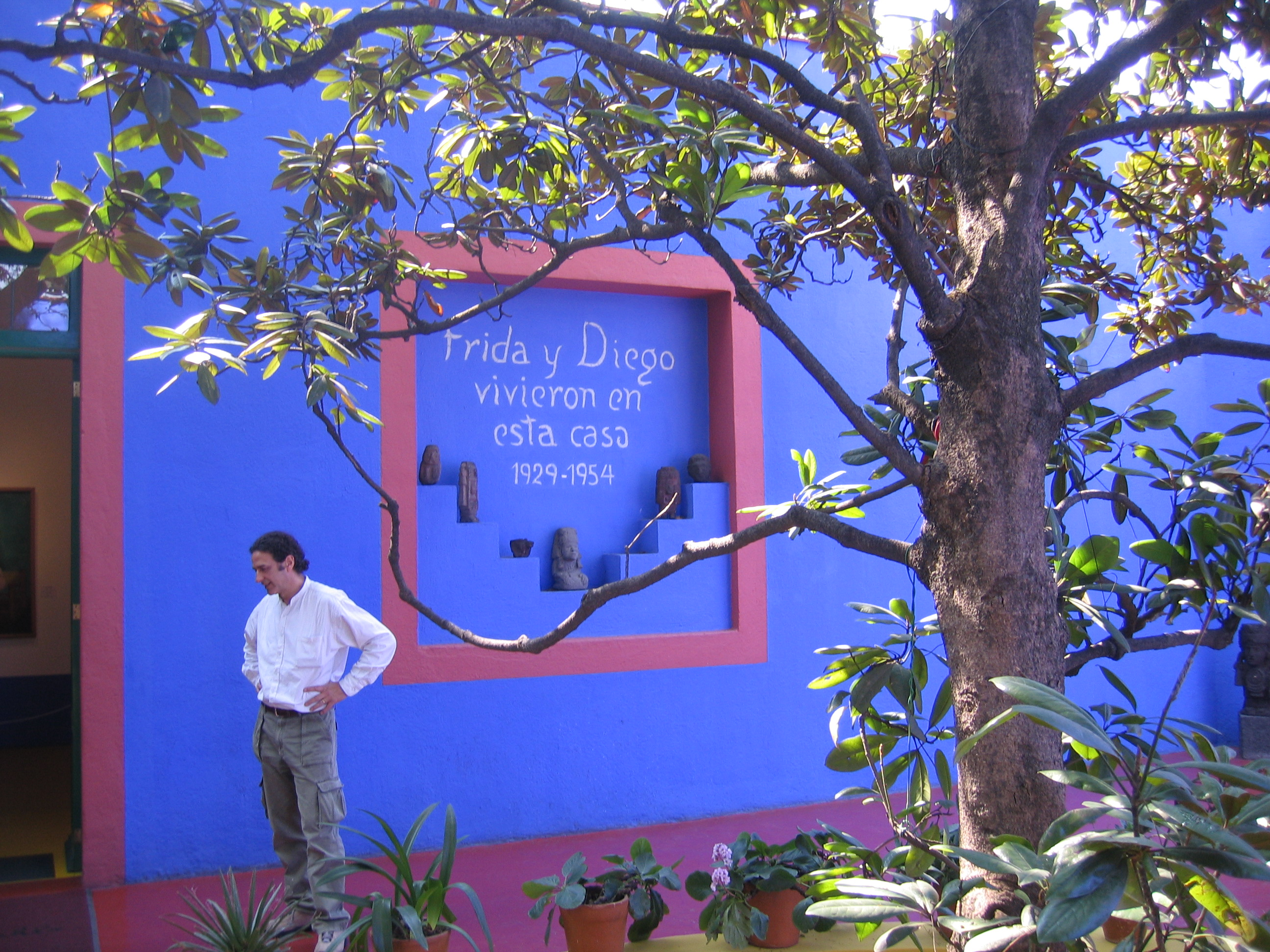 Picture from Frida Kahlos house - The Blue House.